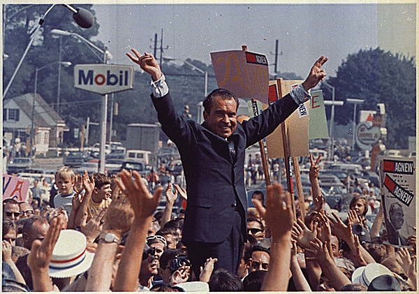 Richard M. Nixon campaign 1968